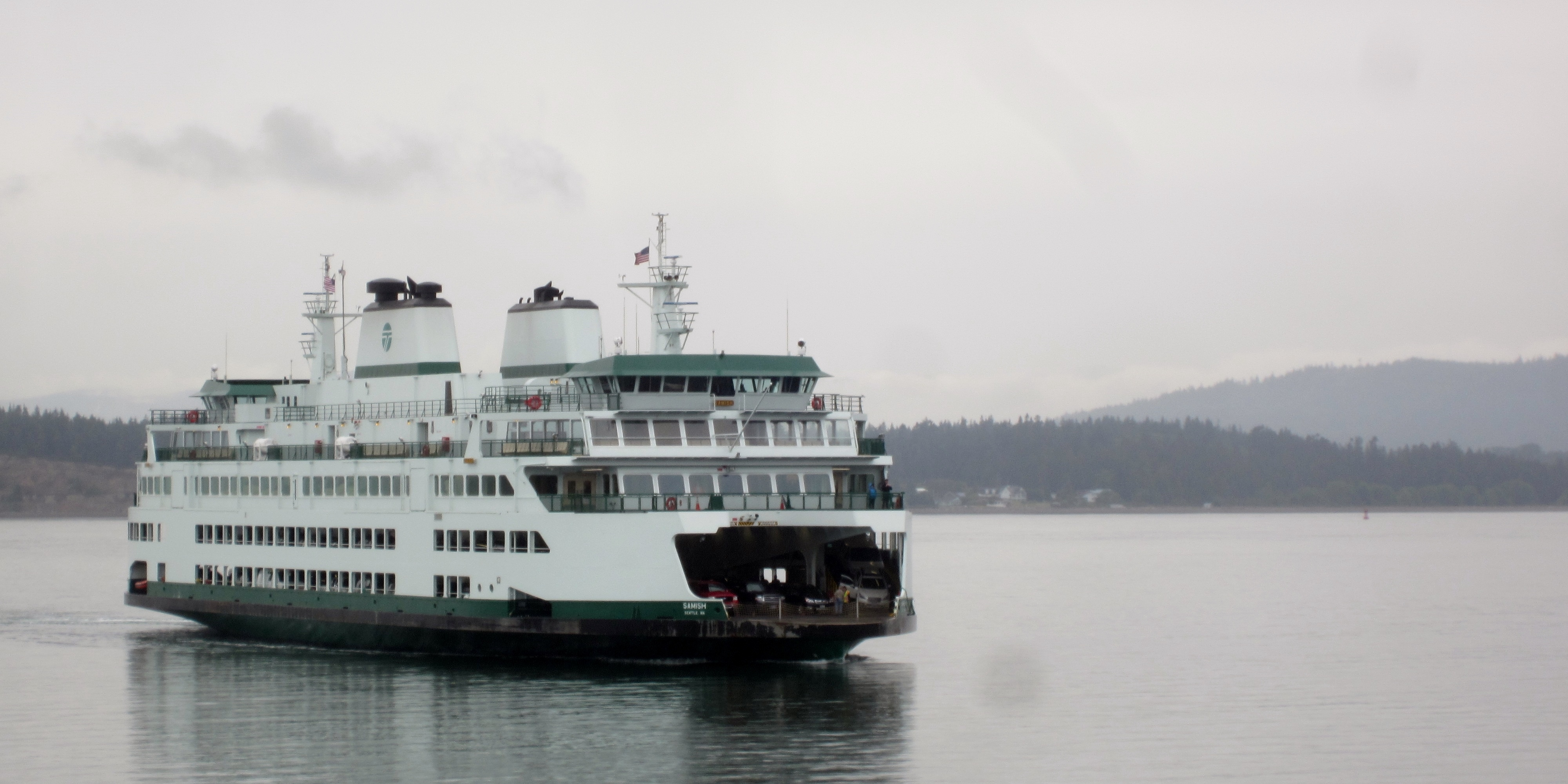 The Samish arrives after a direct trip from Friday Harbor during the Spring Schedule.